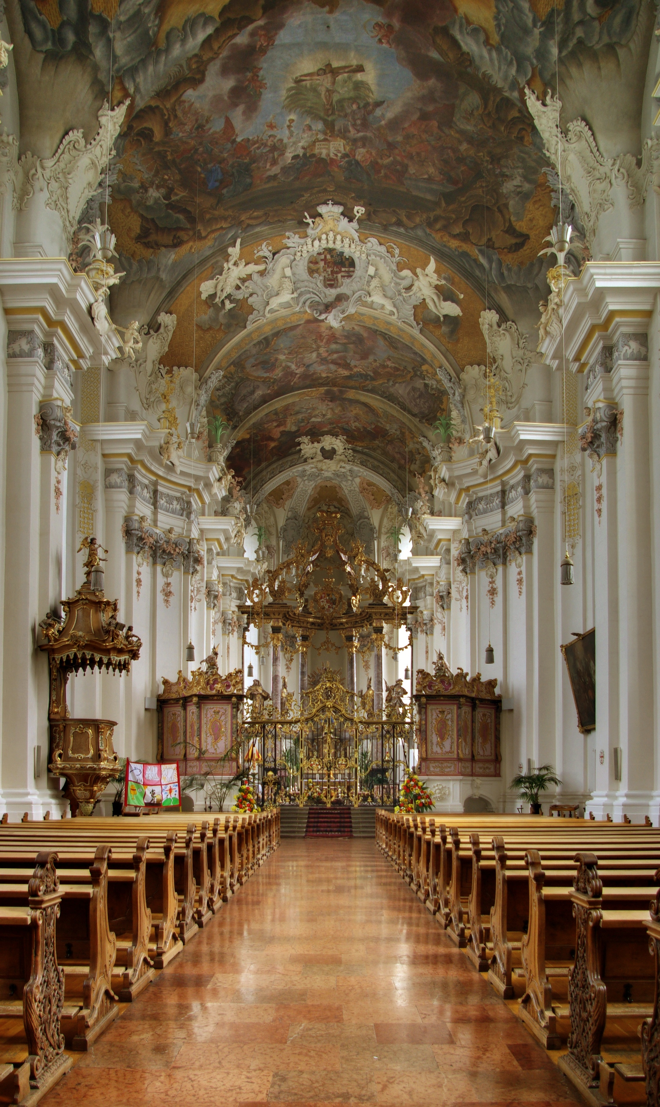 Inside view of St Paul church, in trier (Germany).